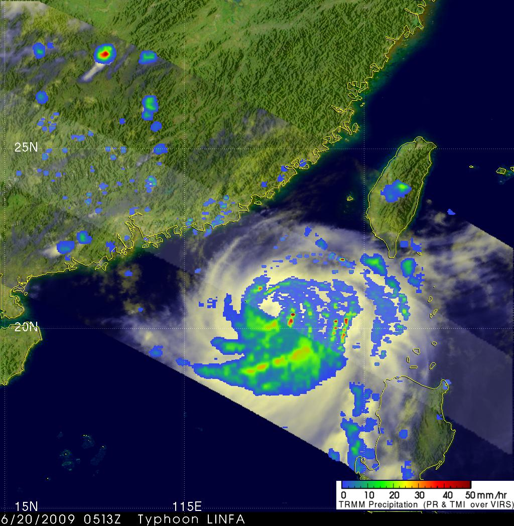 NASA's TRMM satellite captured Linfa's rainfall on June 20 as it was approaching southeastern China.